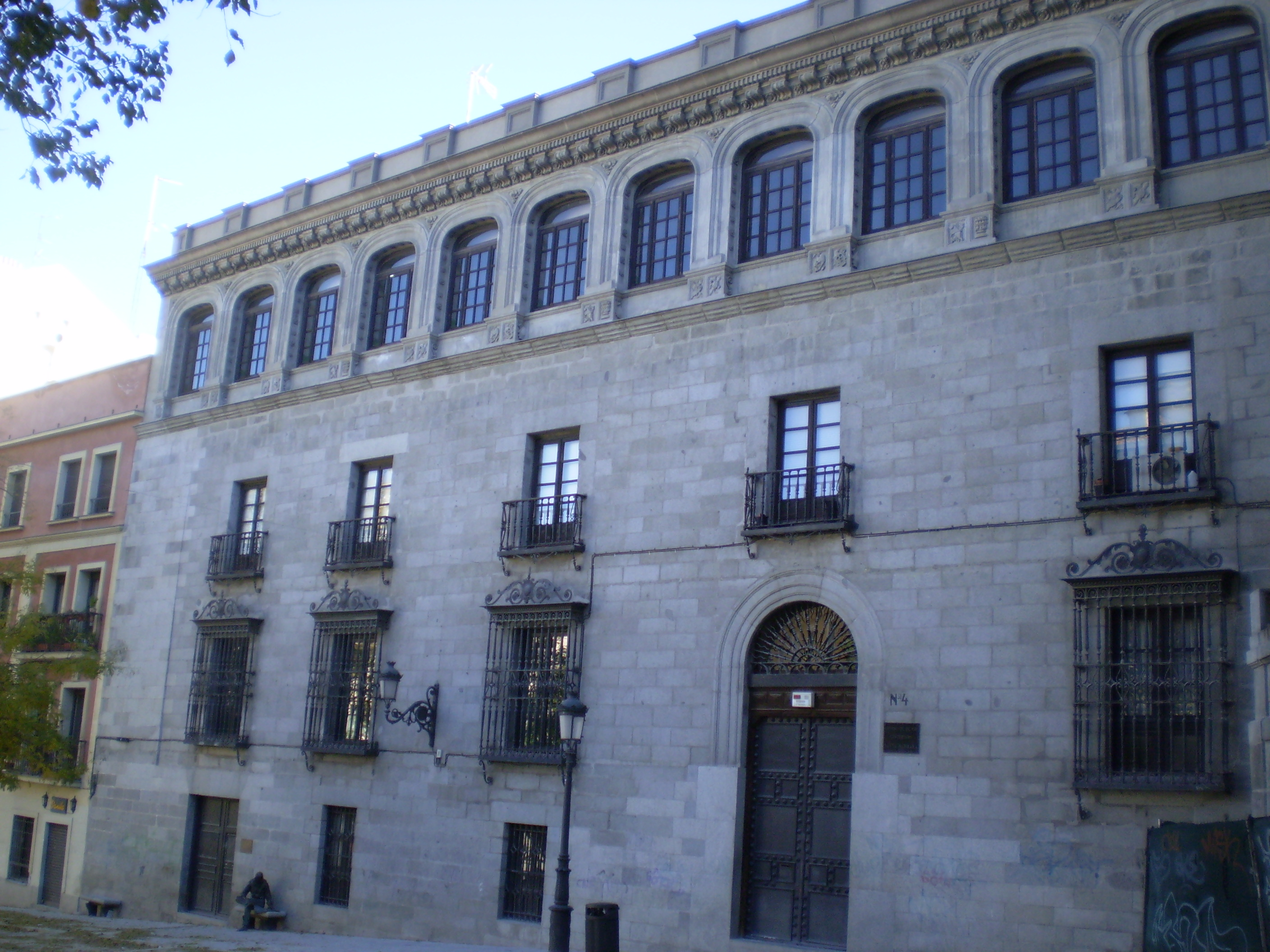 Los Vargas Palace. Madrid, Spain